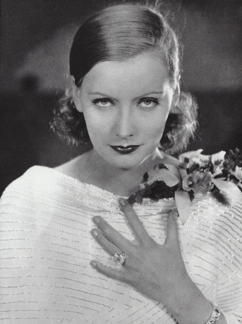 Greta Garbo in a publicity still for Wild Orchids (1929).